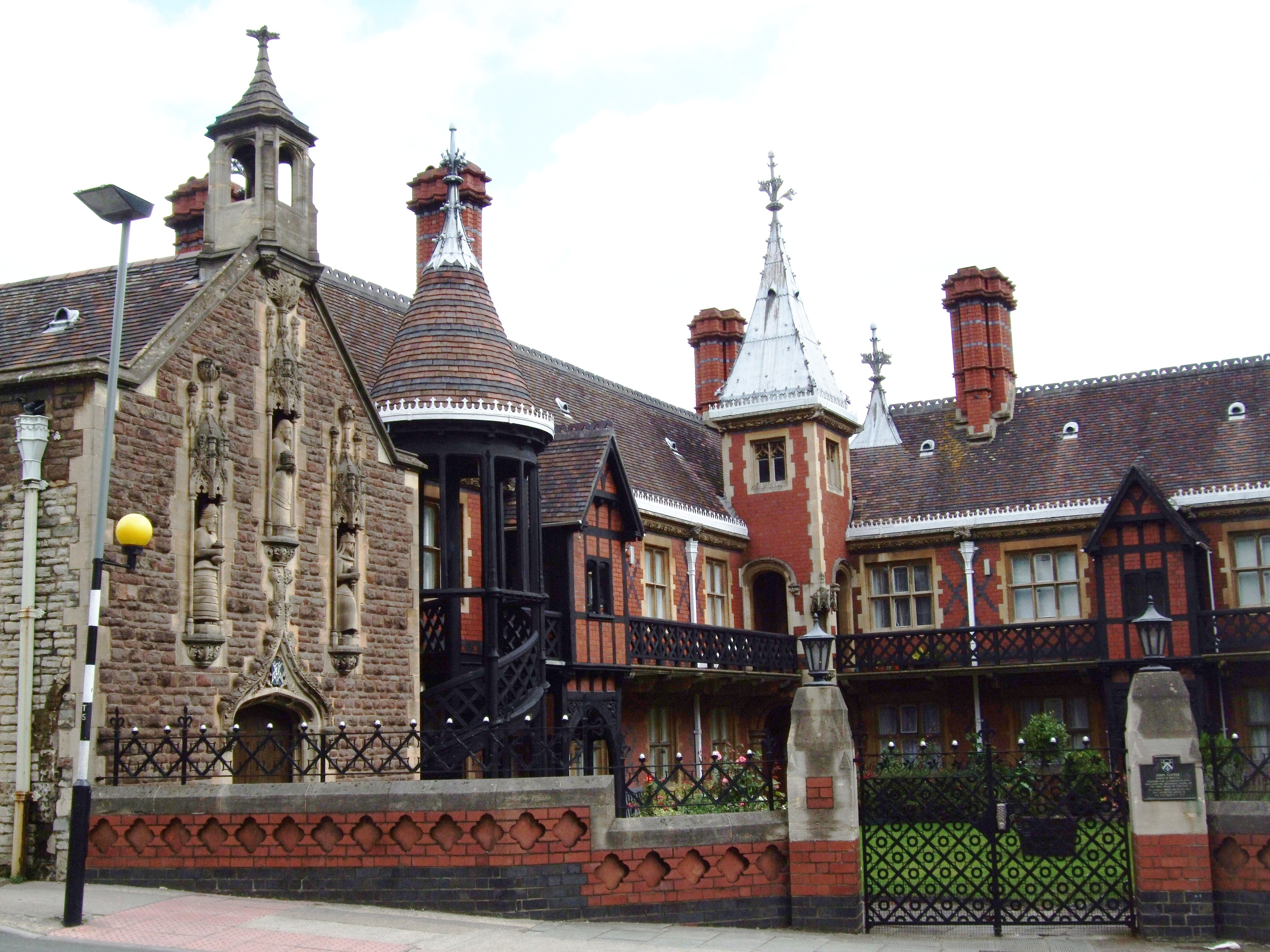 photo from road